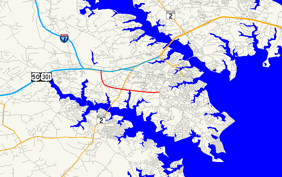 Map of Maryland Route 665